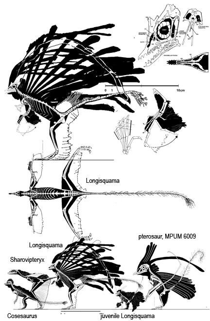 David Peters' controversial restoration of Longisquama.